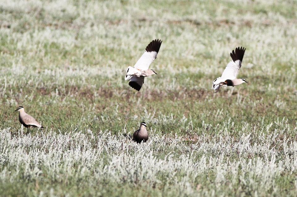 Journey Astana to Kurgaldzhin